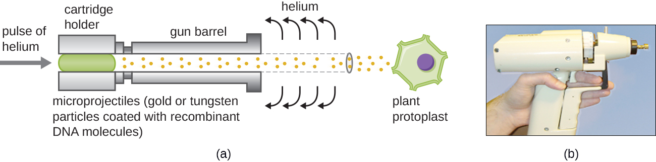 Name: Microbiology ID: Language: English Summary: Subjects: Science and Technology Keywords: Print Style: License: Creative Commons Attribution License (by 4.0) Authors: OpenStax Microbiology Copyright Holders: OpenStax Microbiology Publishers: OpenStax Microbiology Latest Version: 4.4 First Publication Date: Oct 17, 2016 Latest Revision: Nov 11, 2016 Last Edited By: OpenStax Microbiology